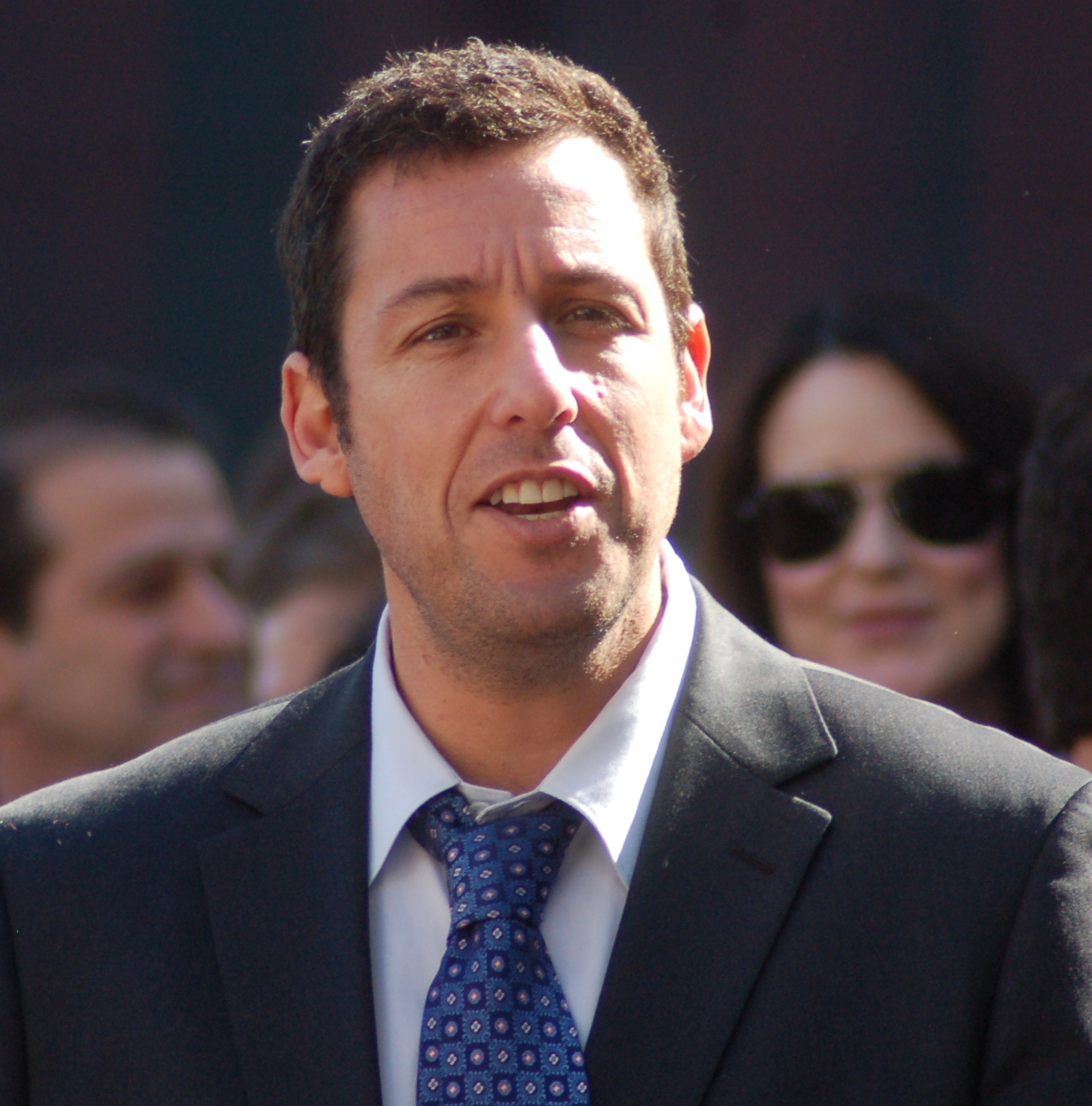 Adam Sandler at a ceremony to receive a star on the Hollywood Walk of Fame.